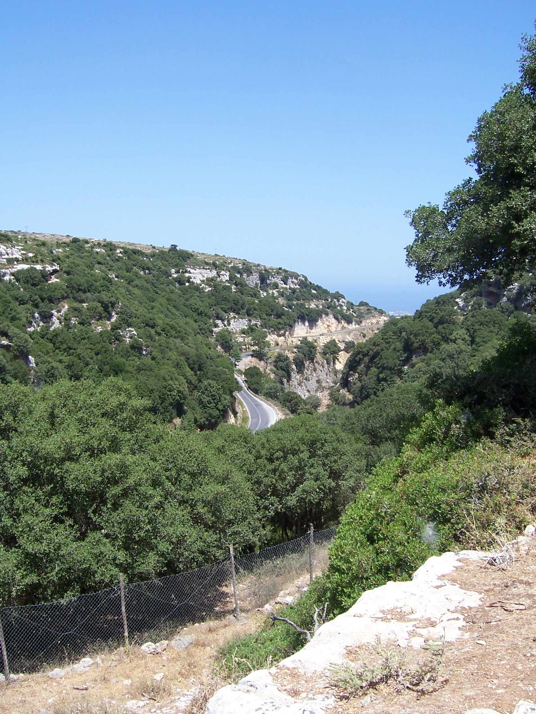 Arkadi's gorge (Crete, Greece)